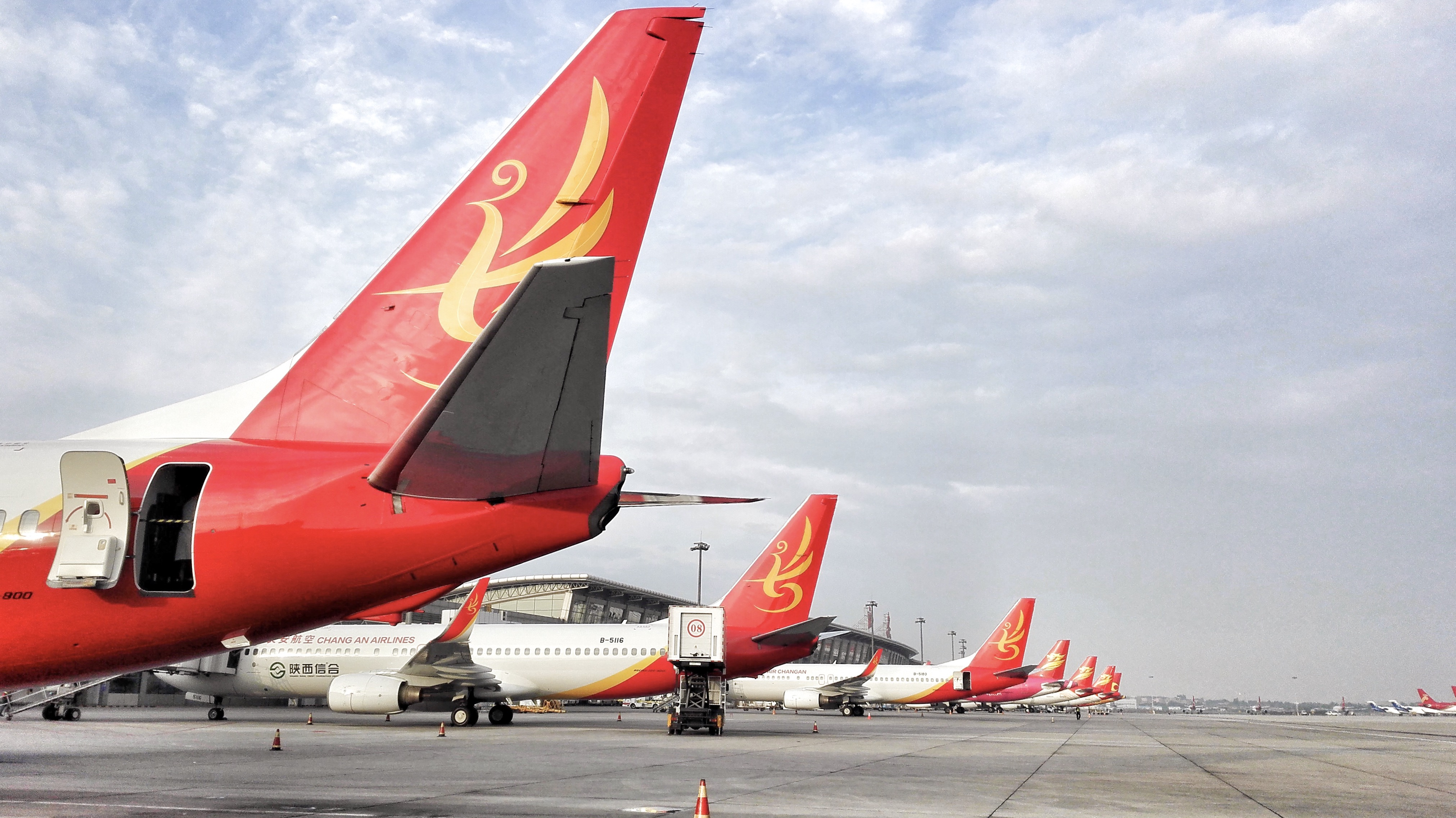 Air Changan's fleets